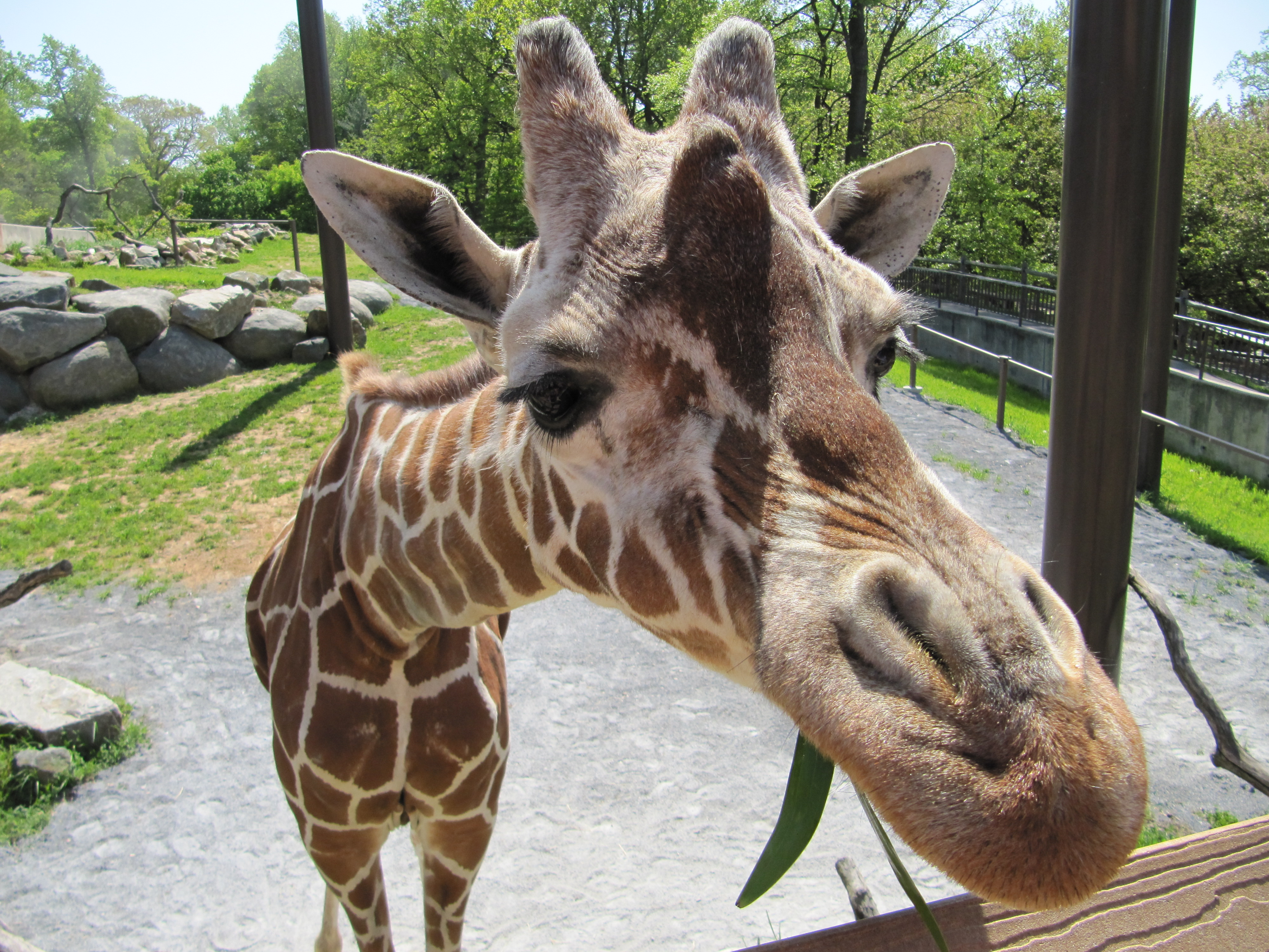 Feeding the giraffe at the The Maryland Zoo in Baltimore.